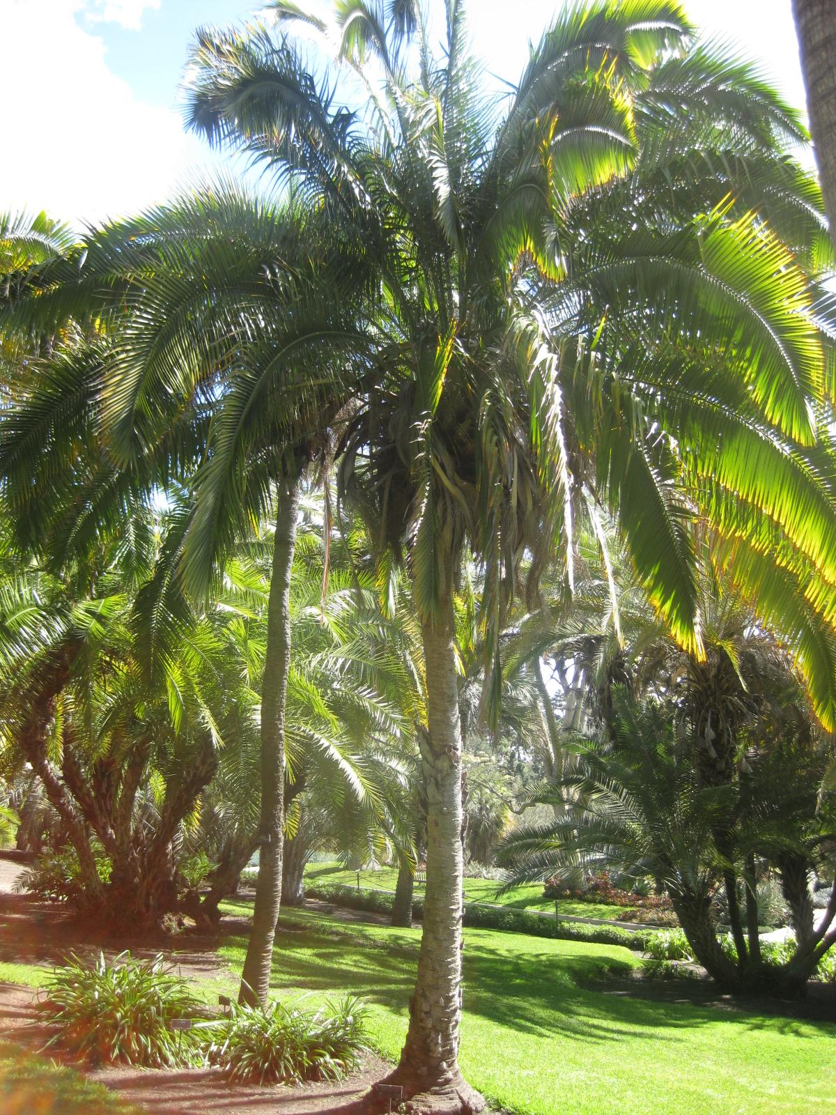 Photographed at Huntington Gardens (Los Angeles) in March